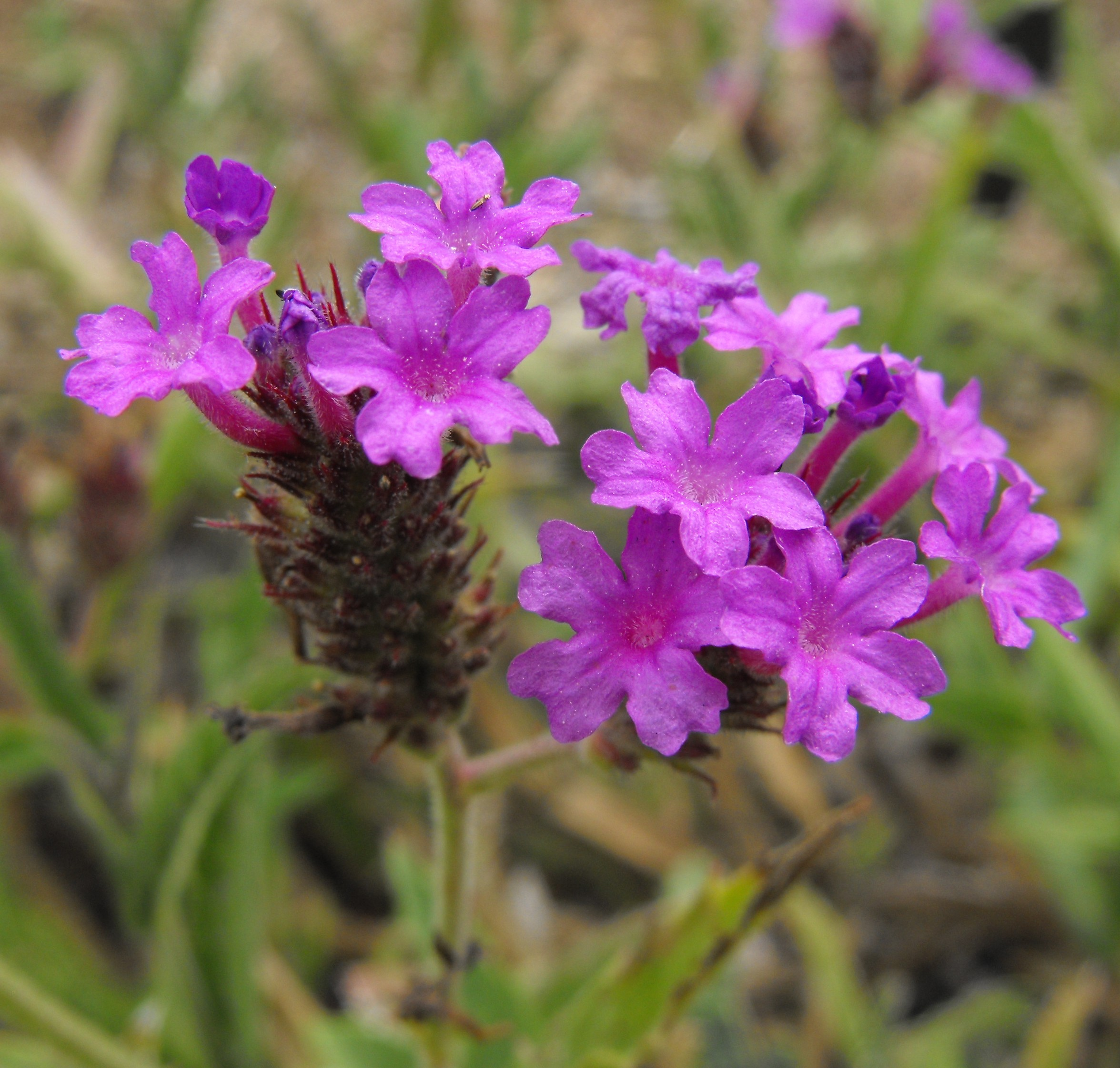 Verbena rigida in the Water Conservation Garden at Cuyamaca College in El Cajon, California, USA. Identified by sign.